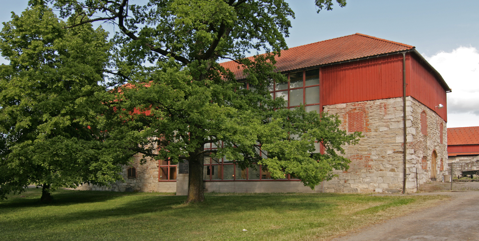 Hedmarksmuseet, Hamar, Norway. Museum main (Storhamar barn) building seen from SE. Architect: Sverre Fehn.